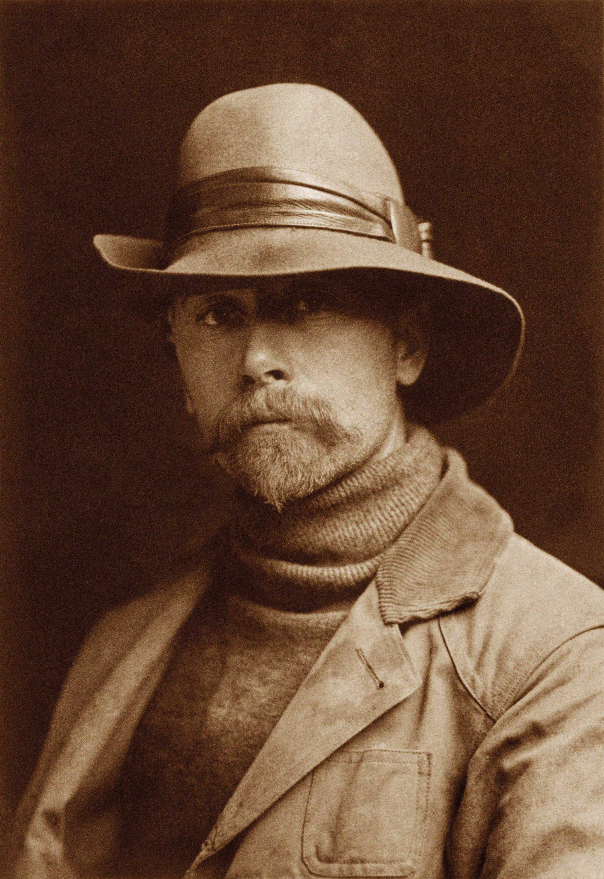 Self-Portrait of Edward S. Curtis 1868-1952.